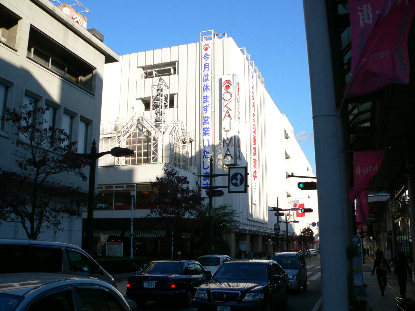 It uses it in a Japanese version.